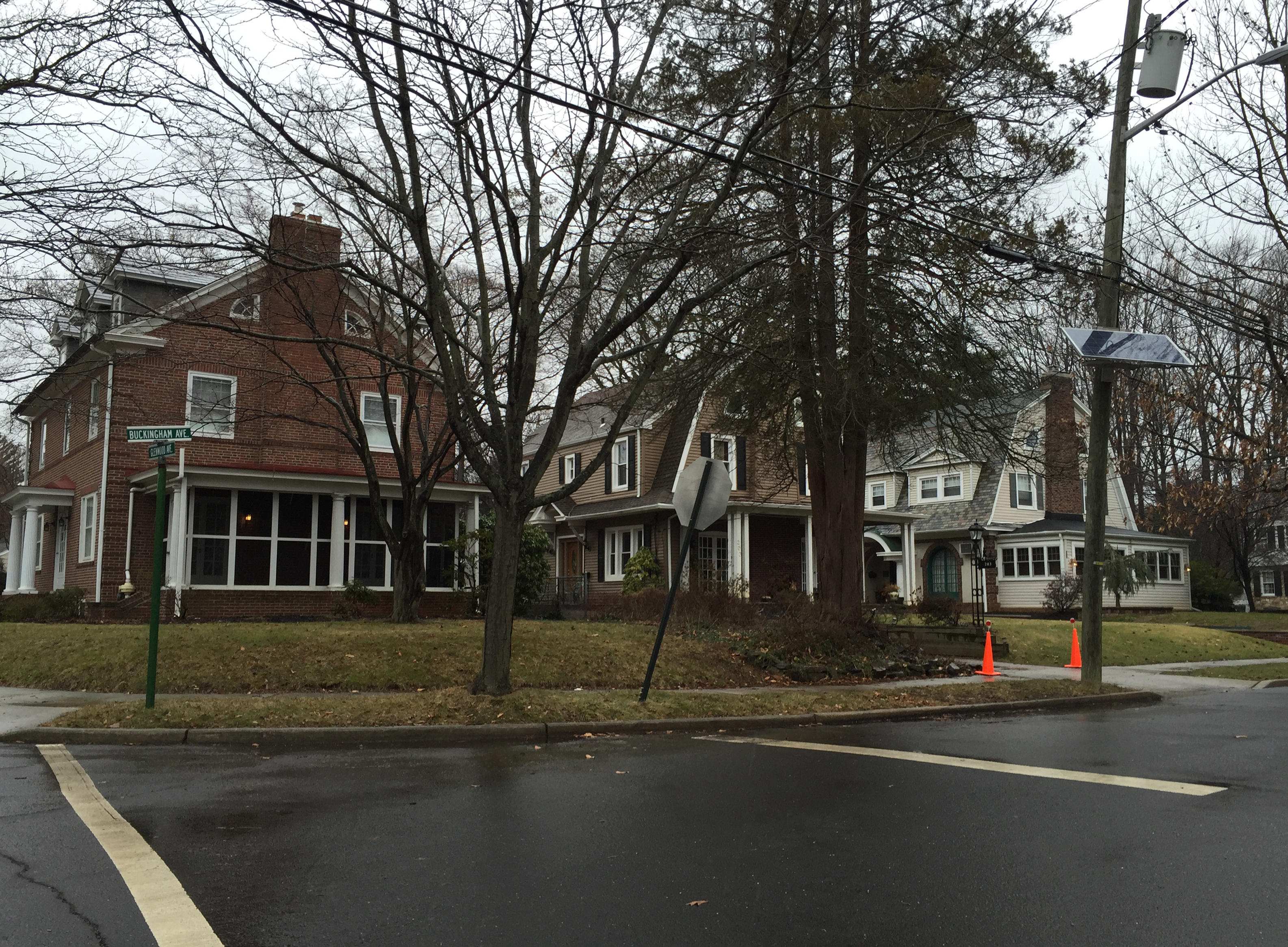 Houses along Buckingham Avenue in the Hiltonia section of Trenton, New Jersey